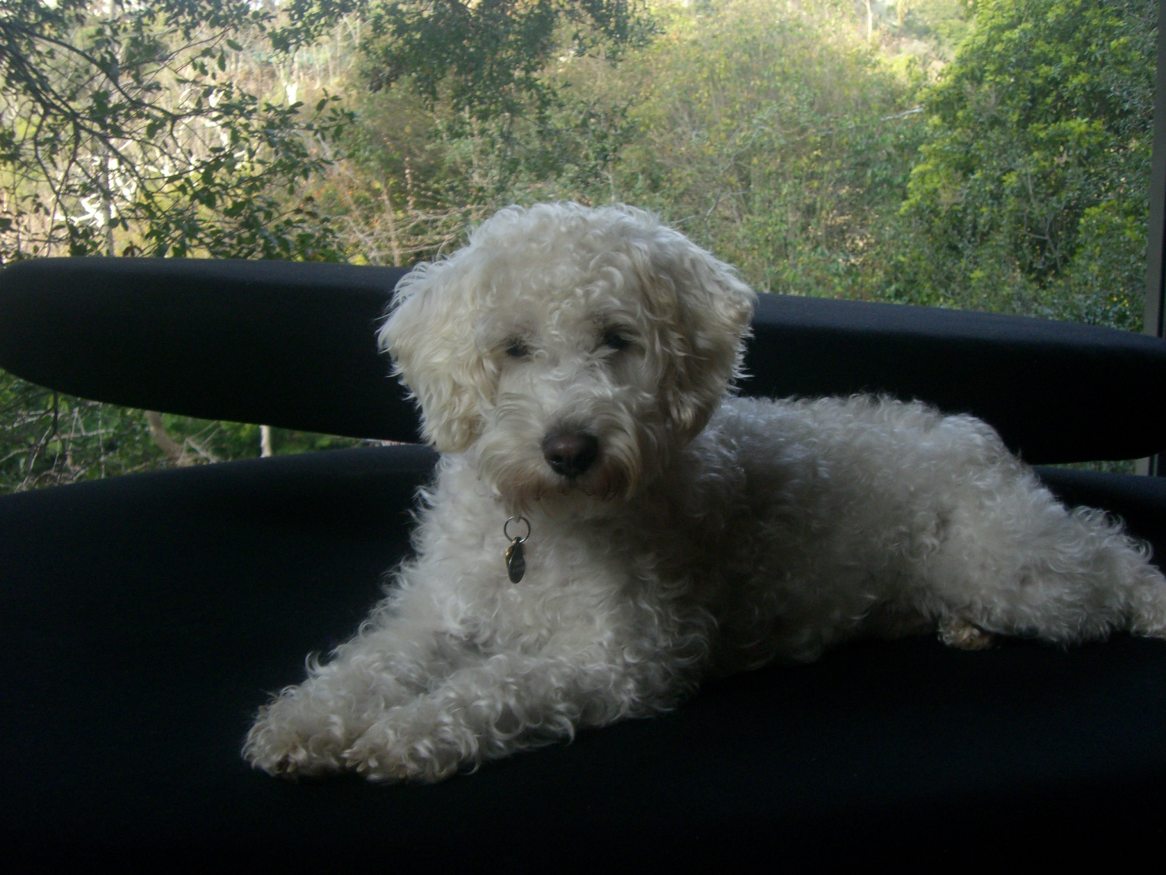 A male schnoodle.